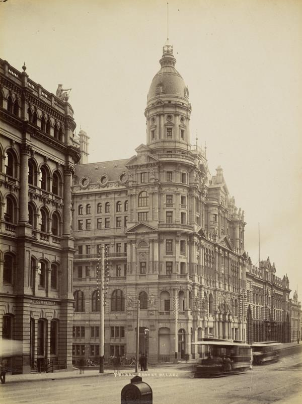 Collins Street, Melbourne, early 1900s.